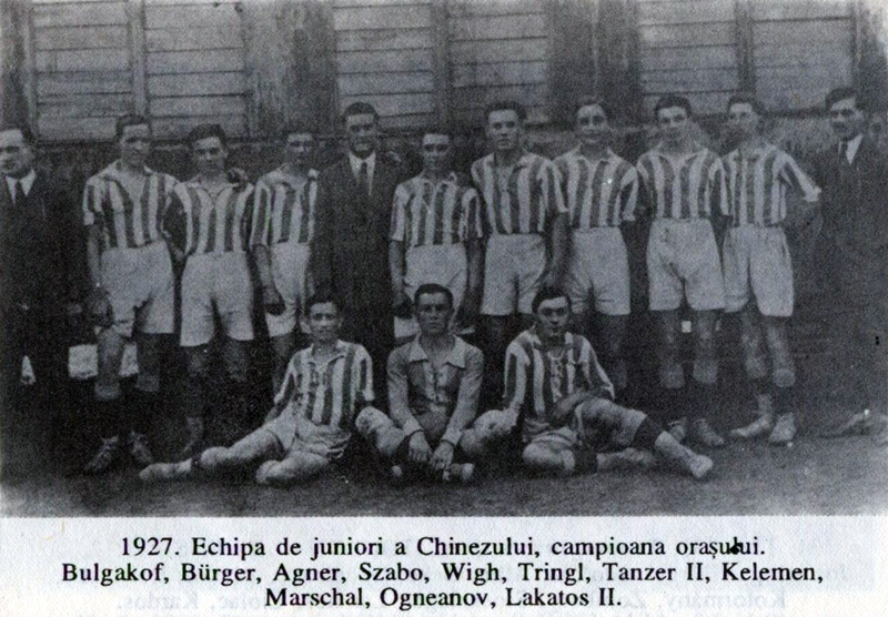 The Romanian football champions Chinezul Timisoara juniors